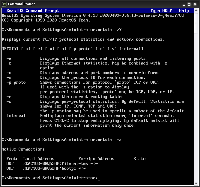 netstat command on ReactOS-0.4.13